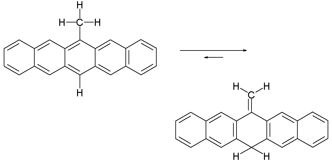 6-methylpentacene Equilibrium